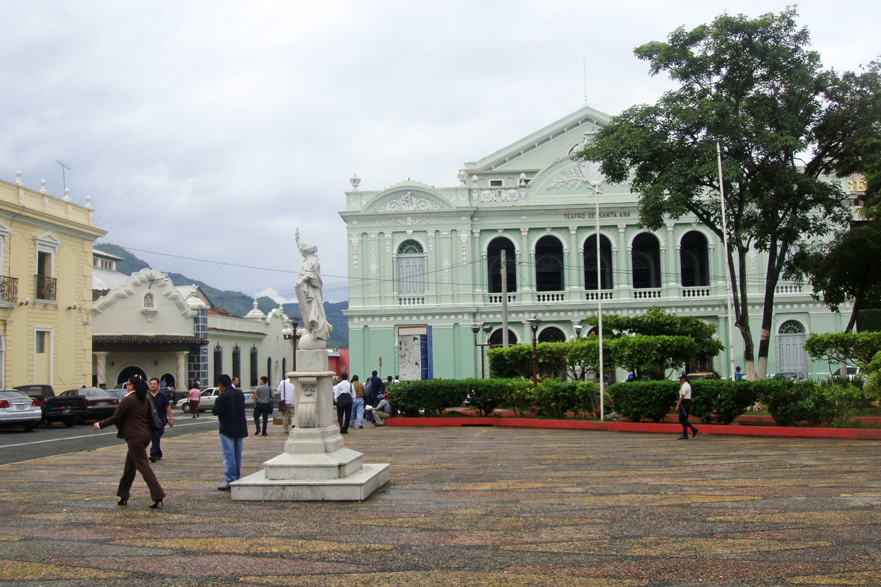 Santa Ana Theater, Santa Ana, El Salvador